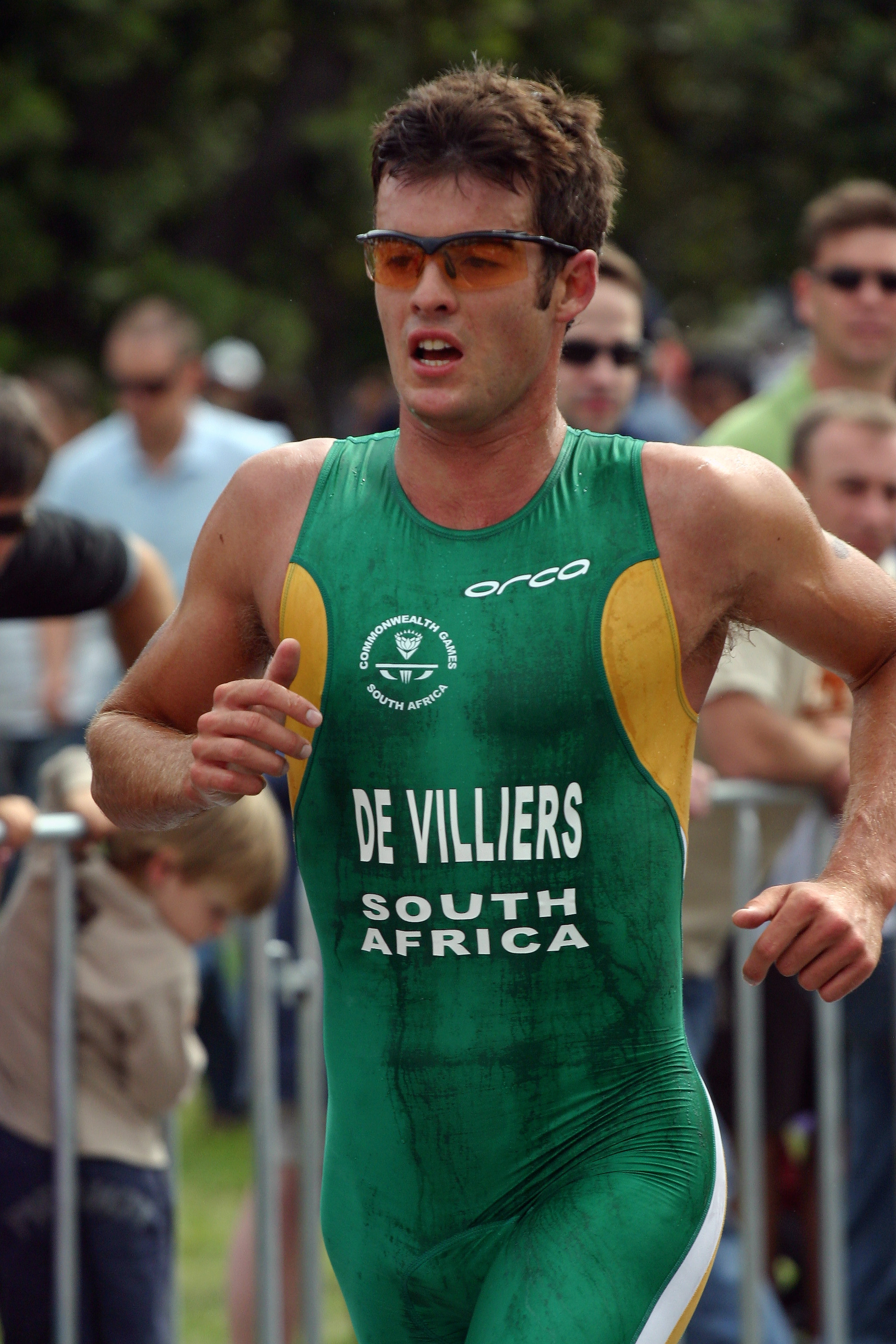 Commonwealth Games triathlon held on Beach Road, St Kilda.